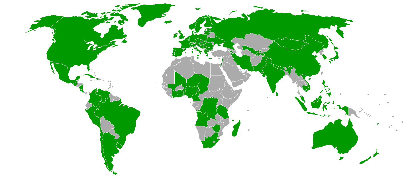 Map showing countries whose national Esperanto associations are members of the World Esperanto Association, according to [2].